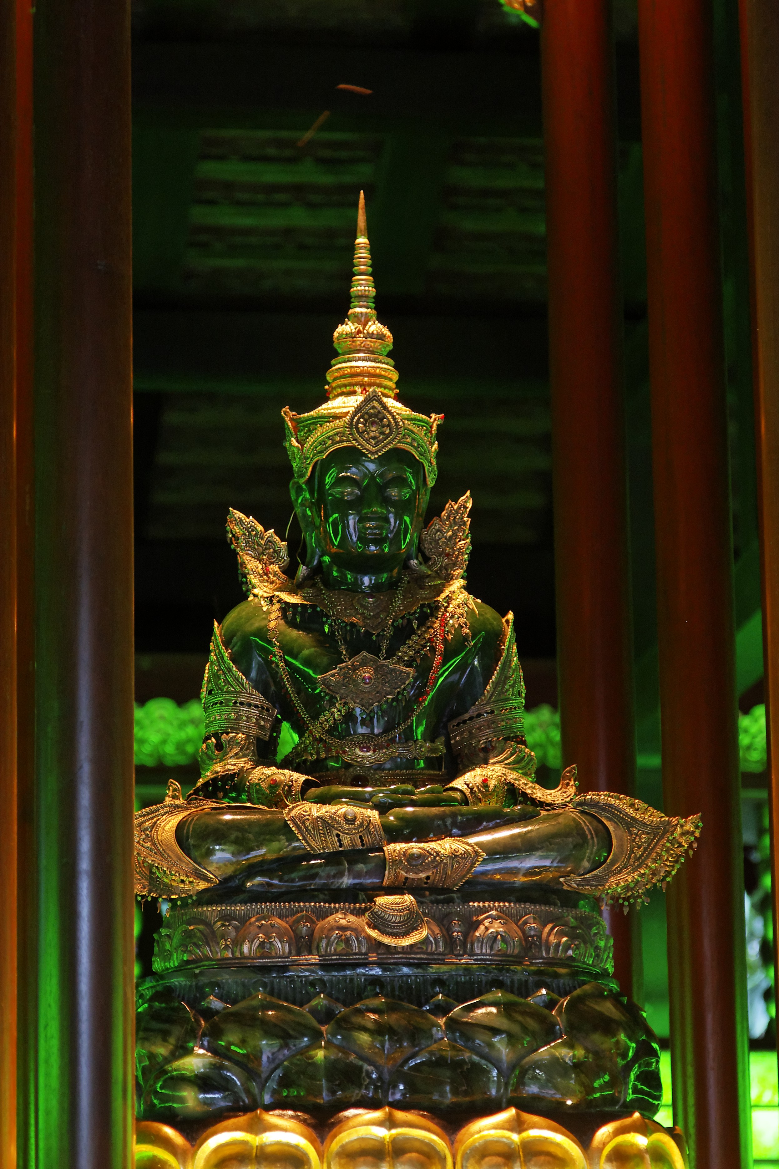 Wat Phra Keaw, Chiang Rai, Thailand